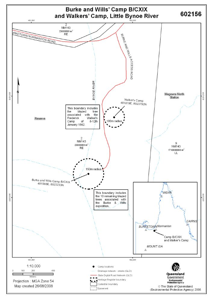 Burke and Wills' Camp B-CXIX and Walker's Camp, Little Bynoe River - boundary map (2008)